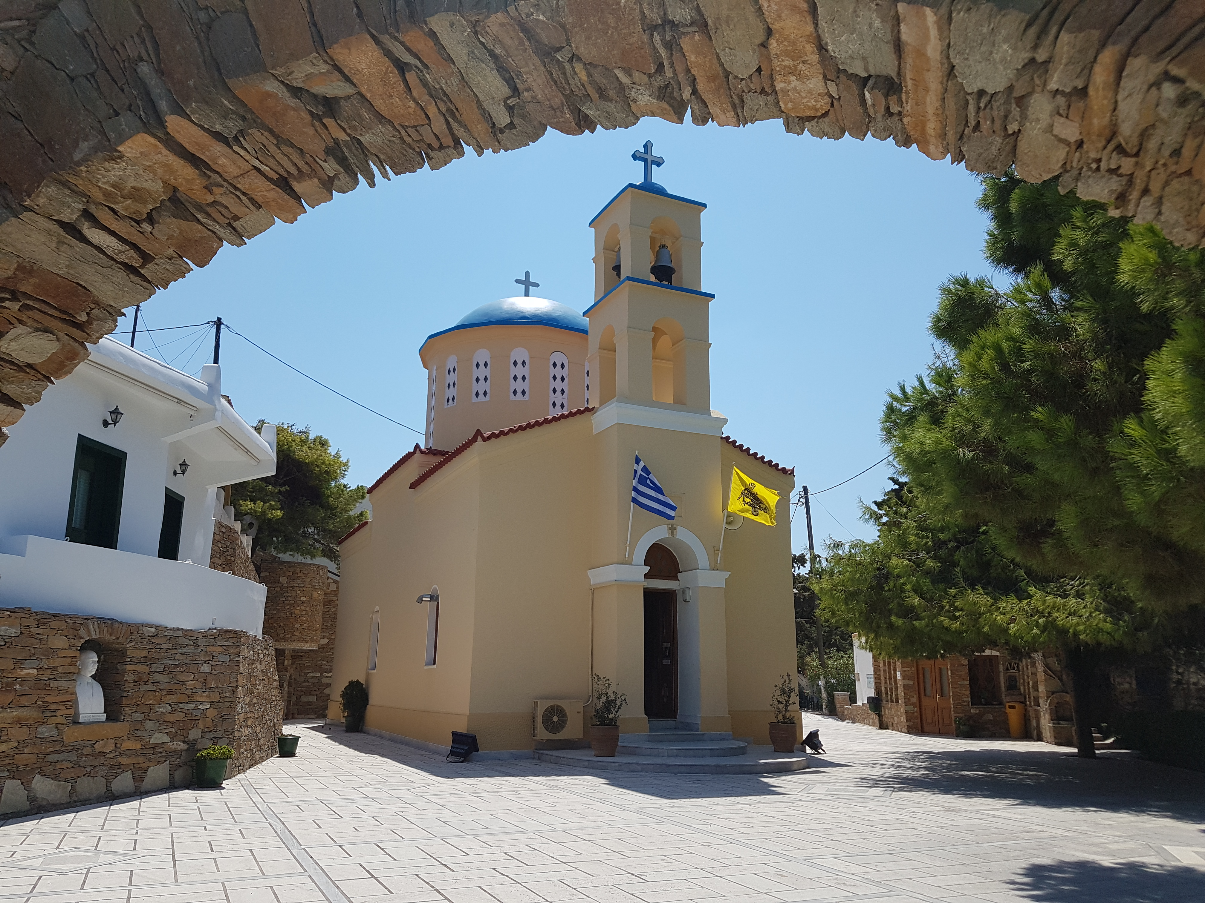 Panagia Kanala church, Kythnos 2018